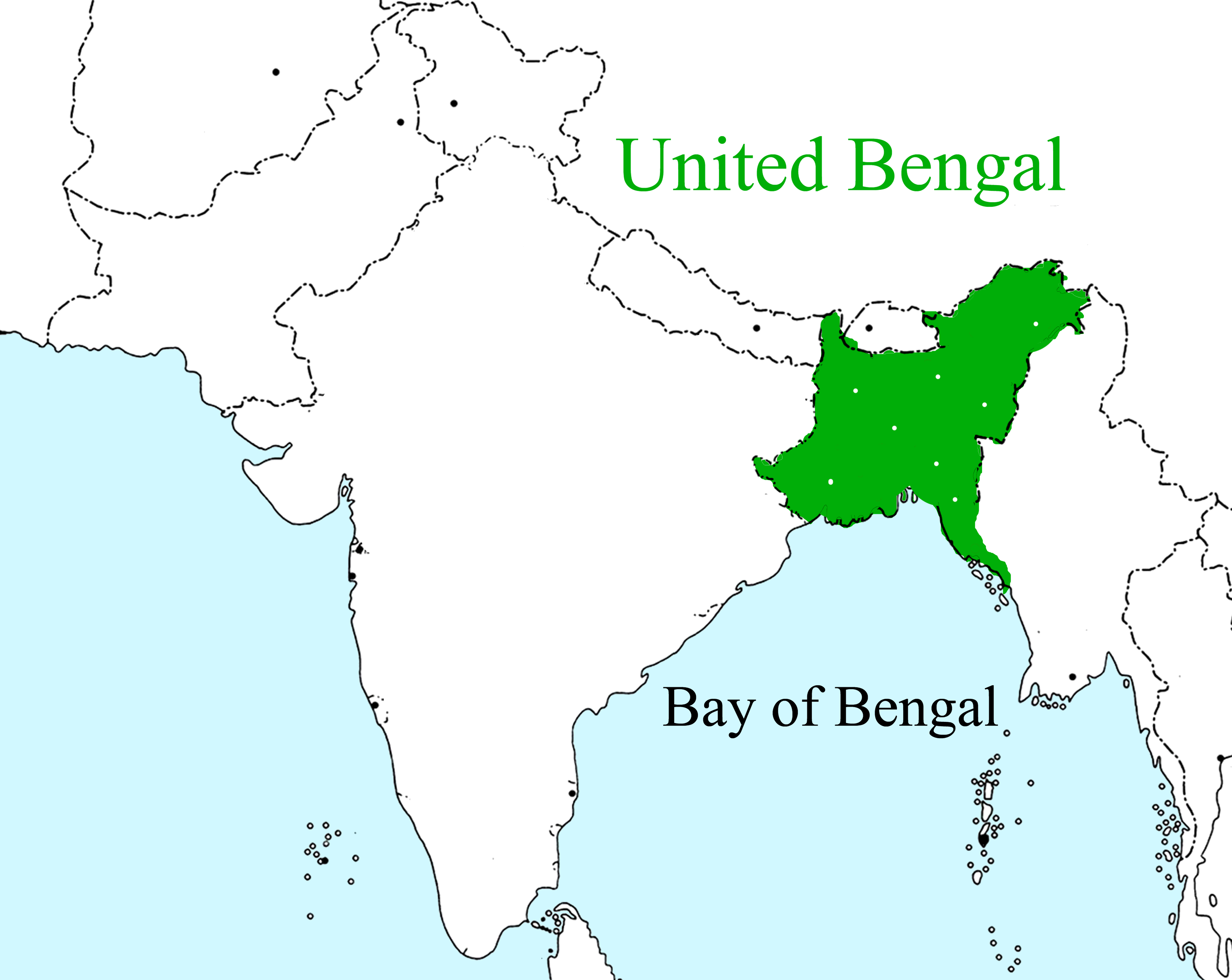 This is the historical map of united Bengal and Bengali speaking region of South Asia. The Bengal region lies in the Ganges-Brahmaputra delta, but there are highlands in its north, northeast, and southeast. Politically, Bengal is now divided between the sovereign Republic of Bangladesh, and India,s West Bengal, Tripura, and Asam. This map region is the map of Bengal Sultanate before the Battle of Plassey. The United Bengal proposal was formally made by the Last Prime minister of British Ruled Bengal Huseyn Shaheed Suhrawardy and Bengali Nationalist Sharat Chandra Bose in 1947.